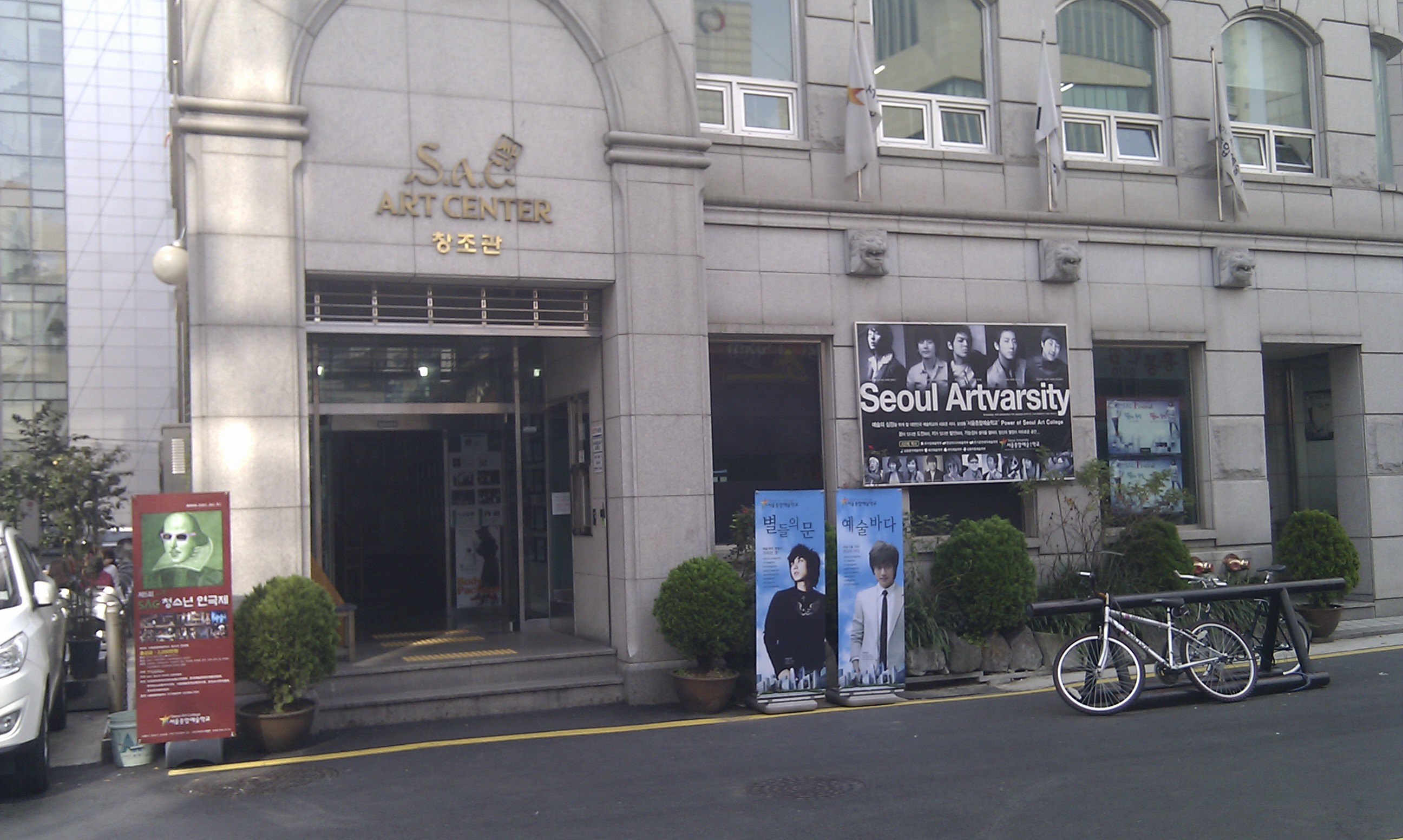 Seoul Artversity Art Center